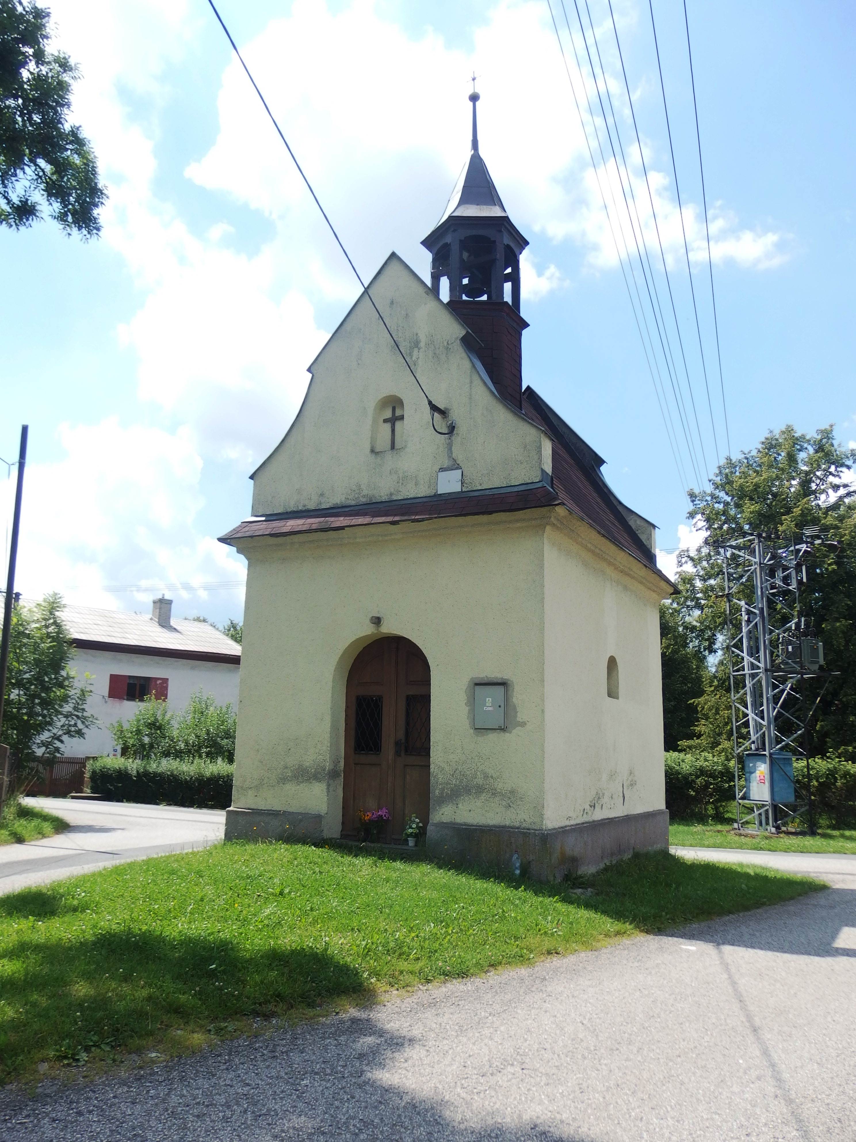 Žabeň, Frýdek-Místek District, Czech Republic.